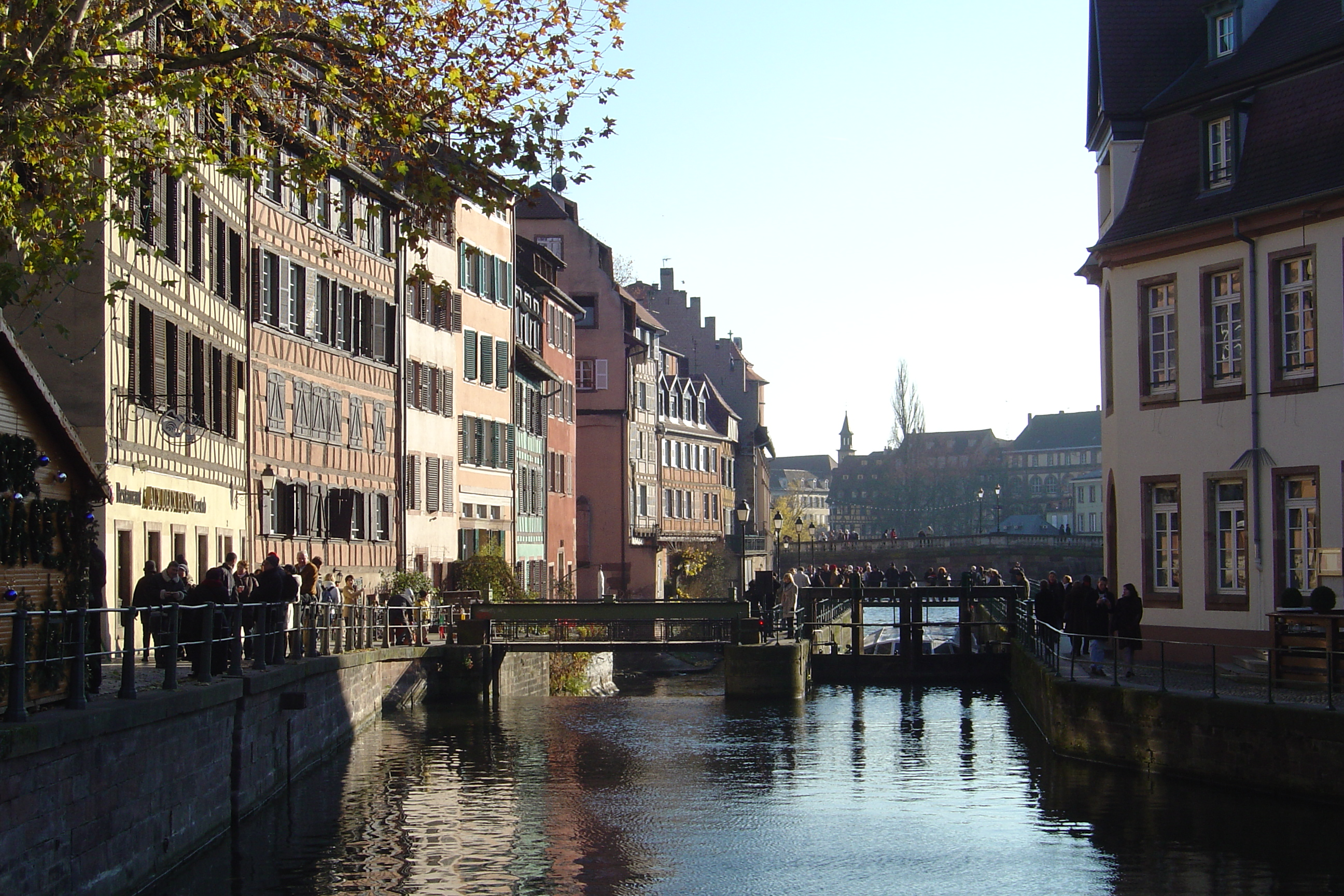 Petite France a Strasbourg